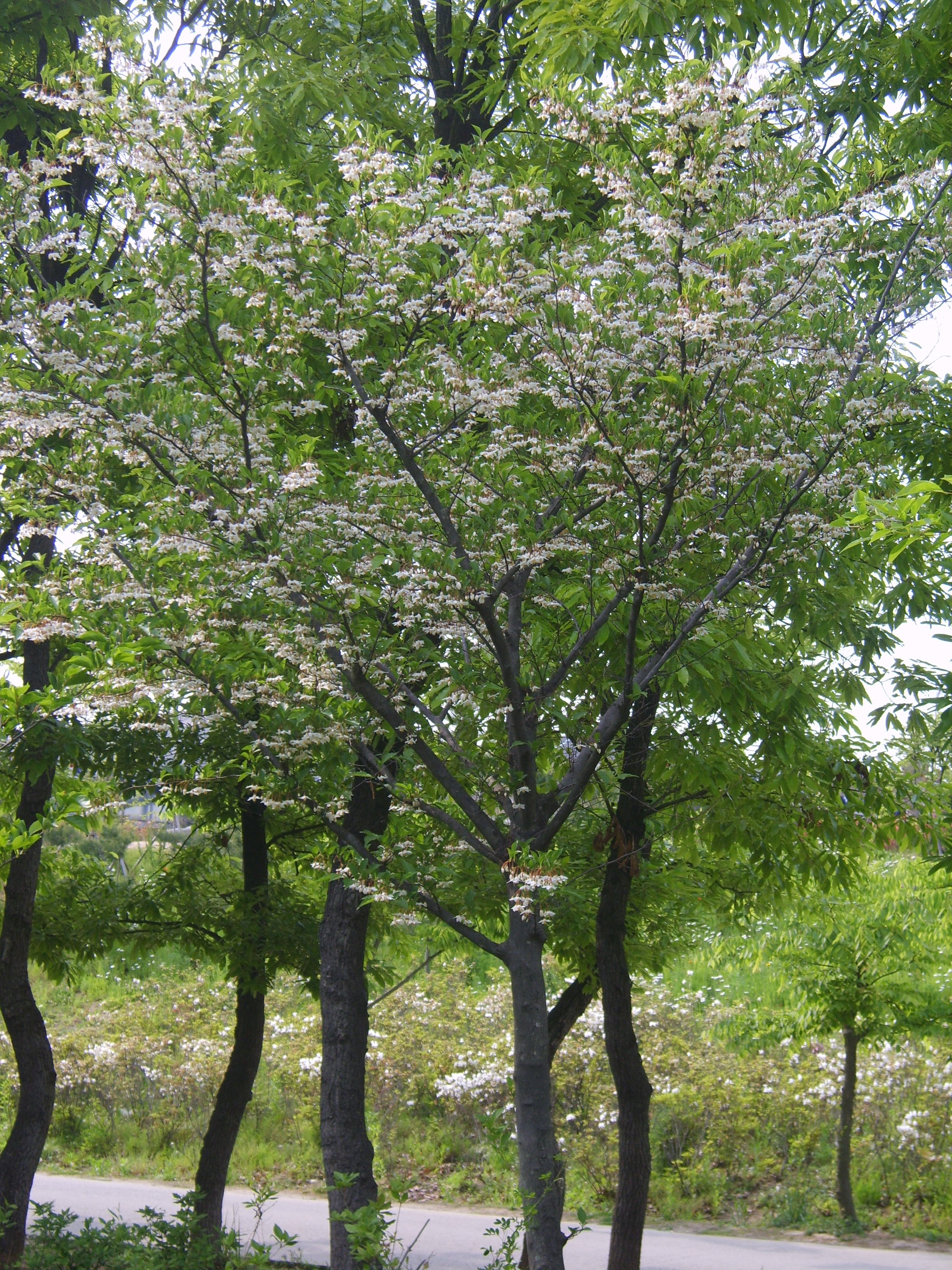 Styrax japonicus in Incheon Grand park, Korea